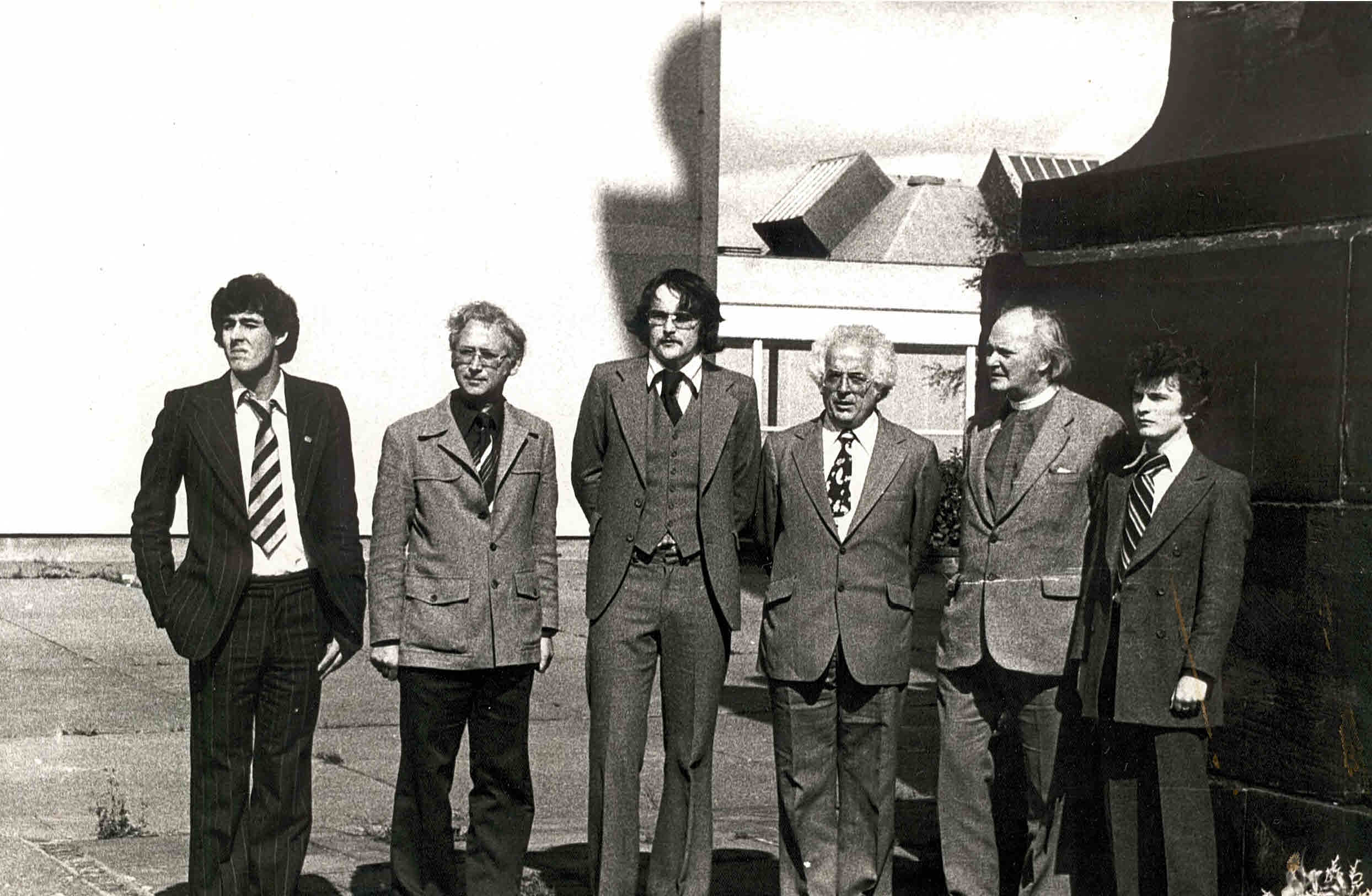 On 13th September 1978, commemorating the first anniversary of anti-Apartheid activist Steve Biko's death at the hands of South African police. In the photo, left-to-right, are David Hanson, HUU Vice-President; Cllr Pat Doyle, Labour leader of Hull City Council; Jeff Hill, leader of Humberside Area Students; Kevin McNamara, MP for Hull Central; Bishop Richard Wood, exciled Bishop of Namibia; and Pete McCabe, Labour President of HUU.